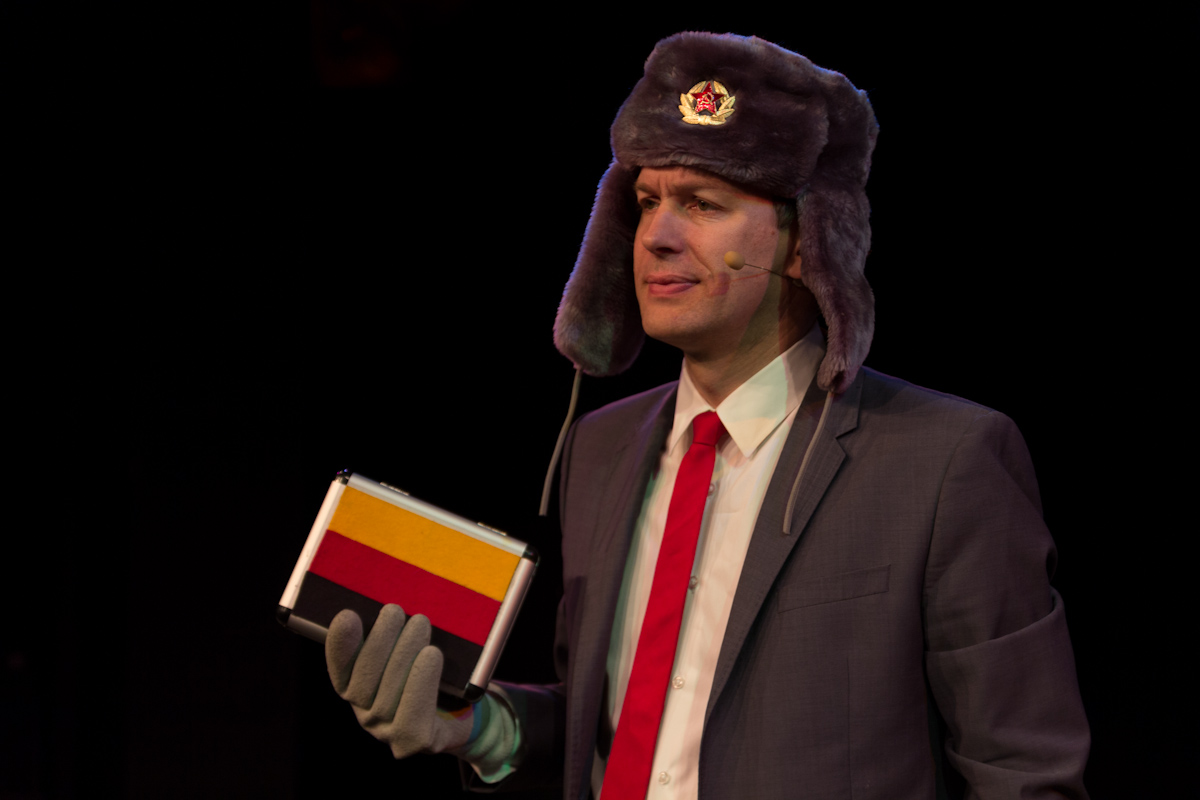 Steffen Möller, 22. January 1969 in Berlin